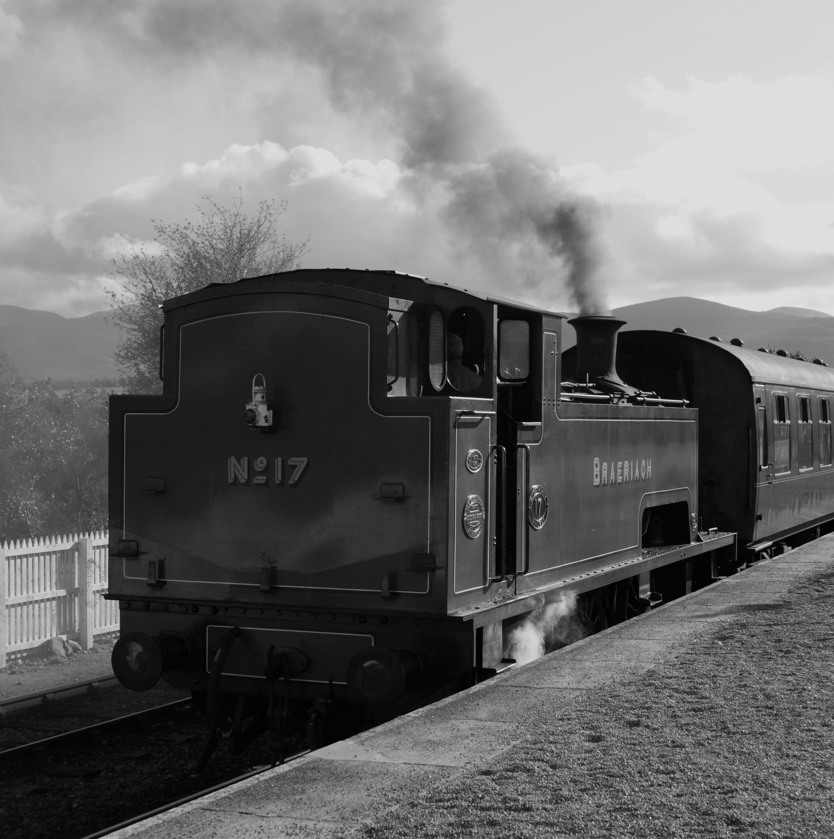 Built at Caledonia Works, Kilmarnock in 1935 , rebuilt 2005 by Strathspey Railway. Aviemore Station